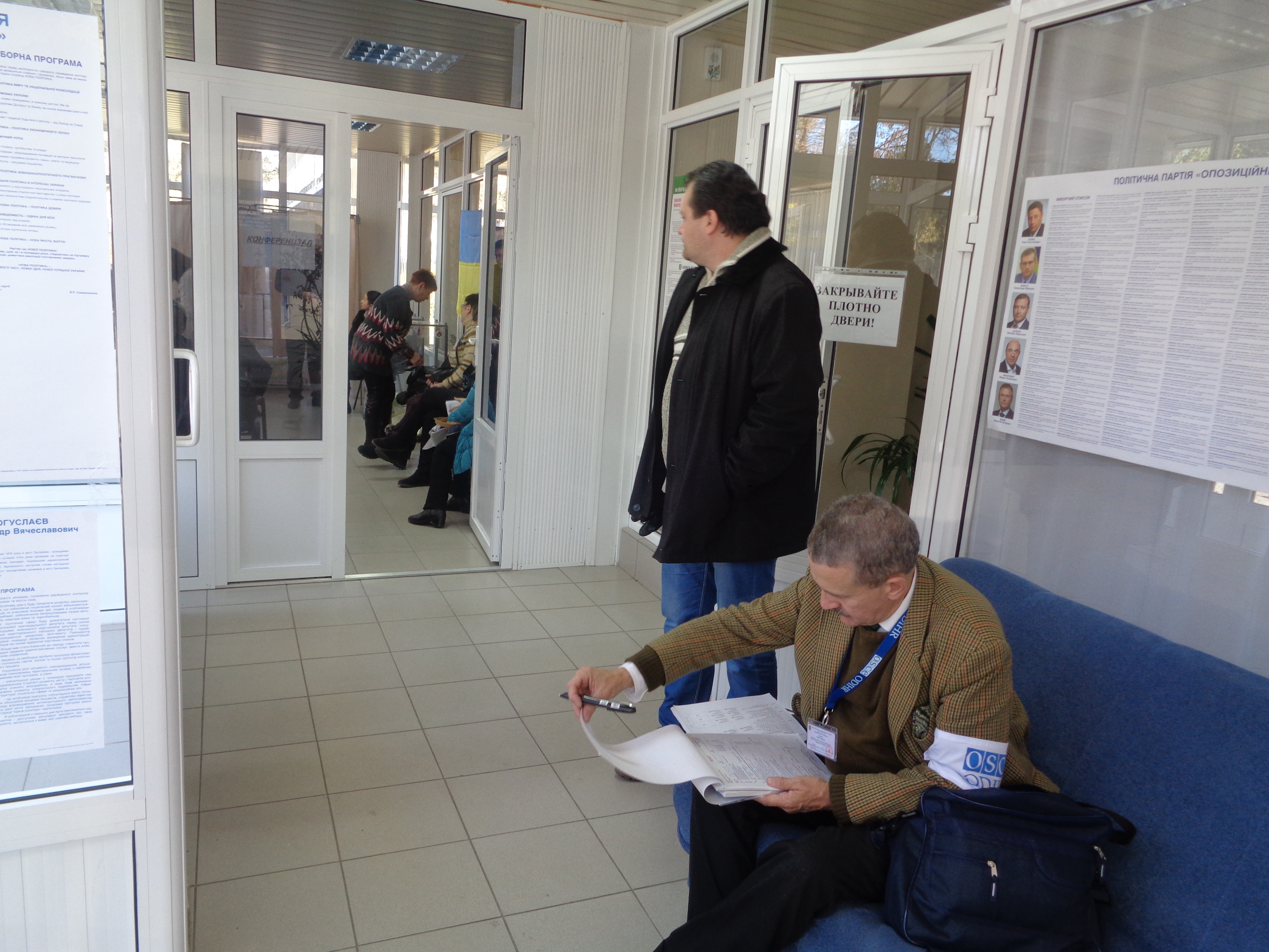 ODIHR short-term observer Charles Bennett (UK) fills in a form to report from the voting in a hospital of victims from World War II, located in northern Zaporizhia during the parliamentary elections in Ukraine. Photo: Erik Thau-Knudsen, 2014-10-26 13:42:38 GMT+2Dansk: Korttidsobservatør for Kontoret for demokratiske institutioner og menneskerettigheder, Charles Bennett (britisk), udfylder, flankeret af sin ukrainsk-engelske tolk, en B-formular efter at have observeret afstemningen på et hospital for invalider fra 2. Verdenskrig i Zaporizhia under parlamentsvalget i Ukraine. Foto: Erik Thau-Knudsen, 2014-10-26 13:42:38 GMT+2